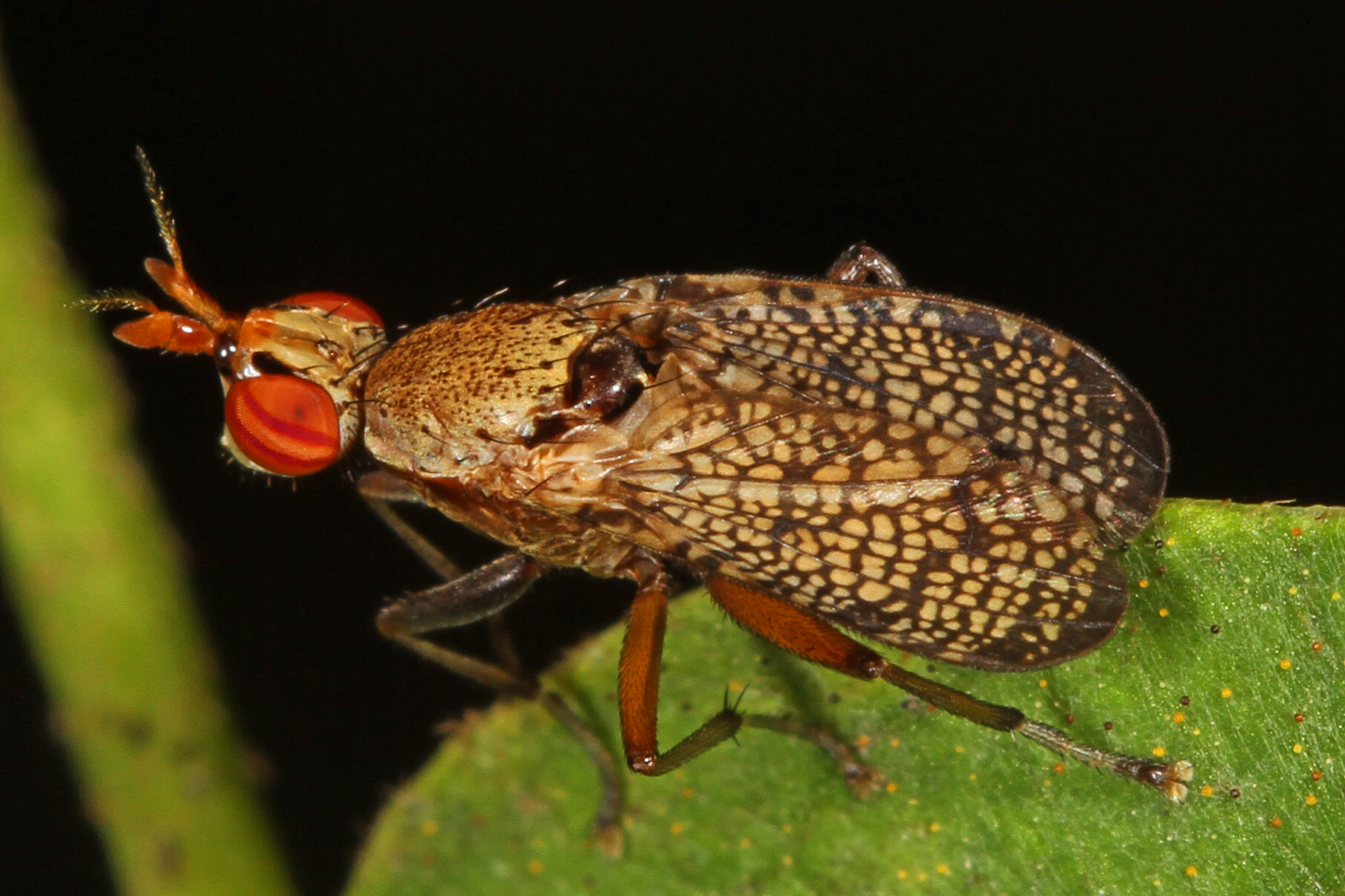 Marsh Fly - Euthycera arcuata, Catoctin Mountains, Maryland Frederick County - 9/13/2015 ID by Bugguide